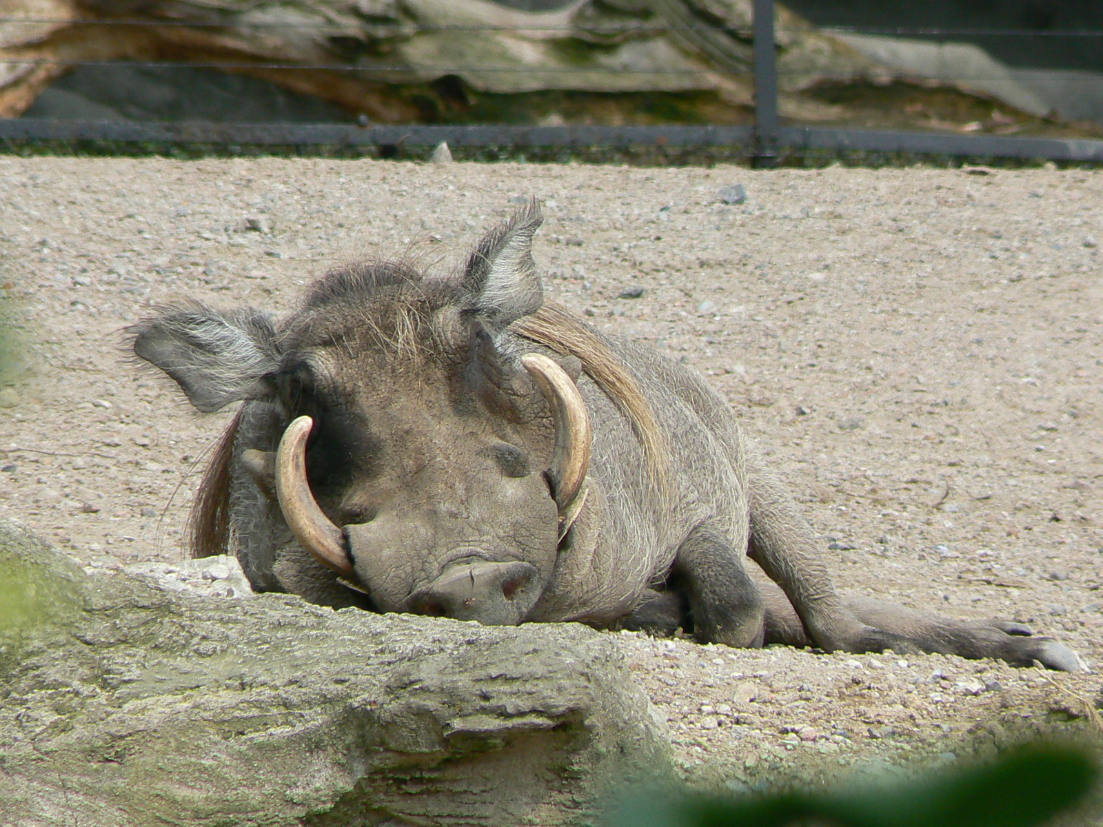 Common warthog